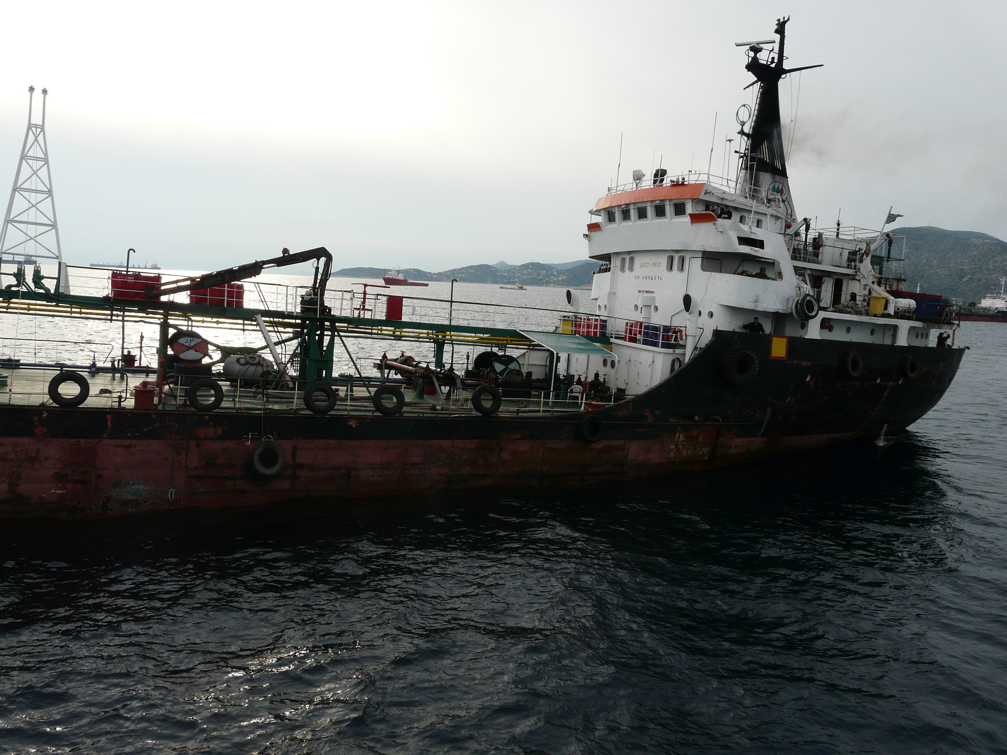 Greek bunker vessel AGIA ZONI III at Piraeus road. The vessel has a funnel-mast. Photo dated 27 Jan 2007.